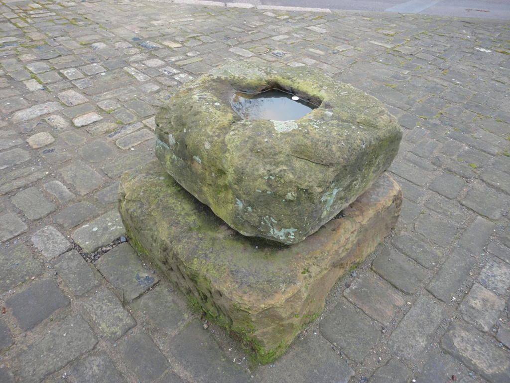 Ackworth Plague Stone at the top of Castle Syke Hill leading from Ackworth to Pontefract